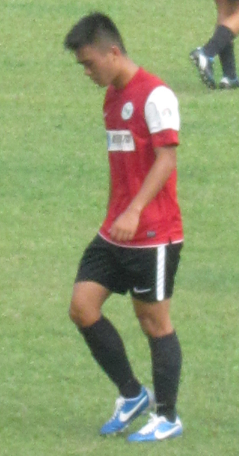 Ip Chung Long (29 September 2012, 2012–13 Hong Kong First Division League vs Wofoo Tai Po at Aberdeen Sports Ground)